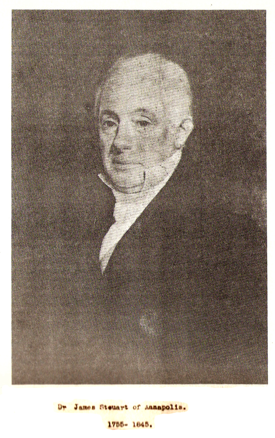 Physician James Steuart, painted by an unknown painter